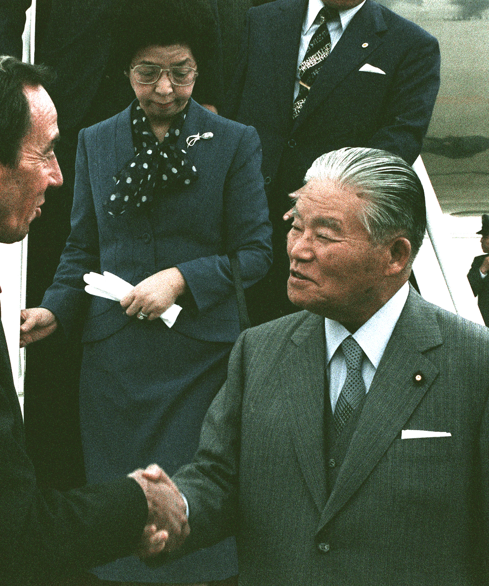 Japanese Prime Minister Masayoshi Ōhira (大平正芳, 1910–80, in office 1978–80) is welcomed upon his arrival in the United States for a visit at Andrews Air Force Base. Behind Ōhira is his wife, Shigeko.